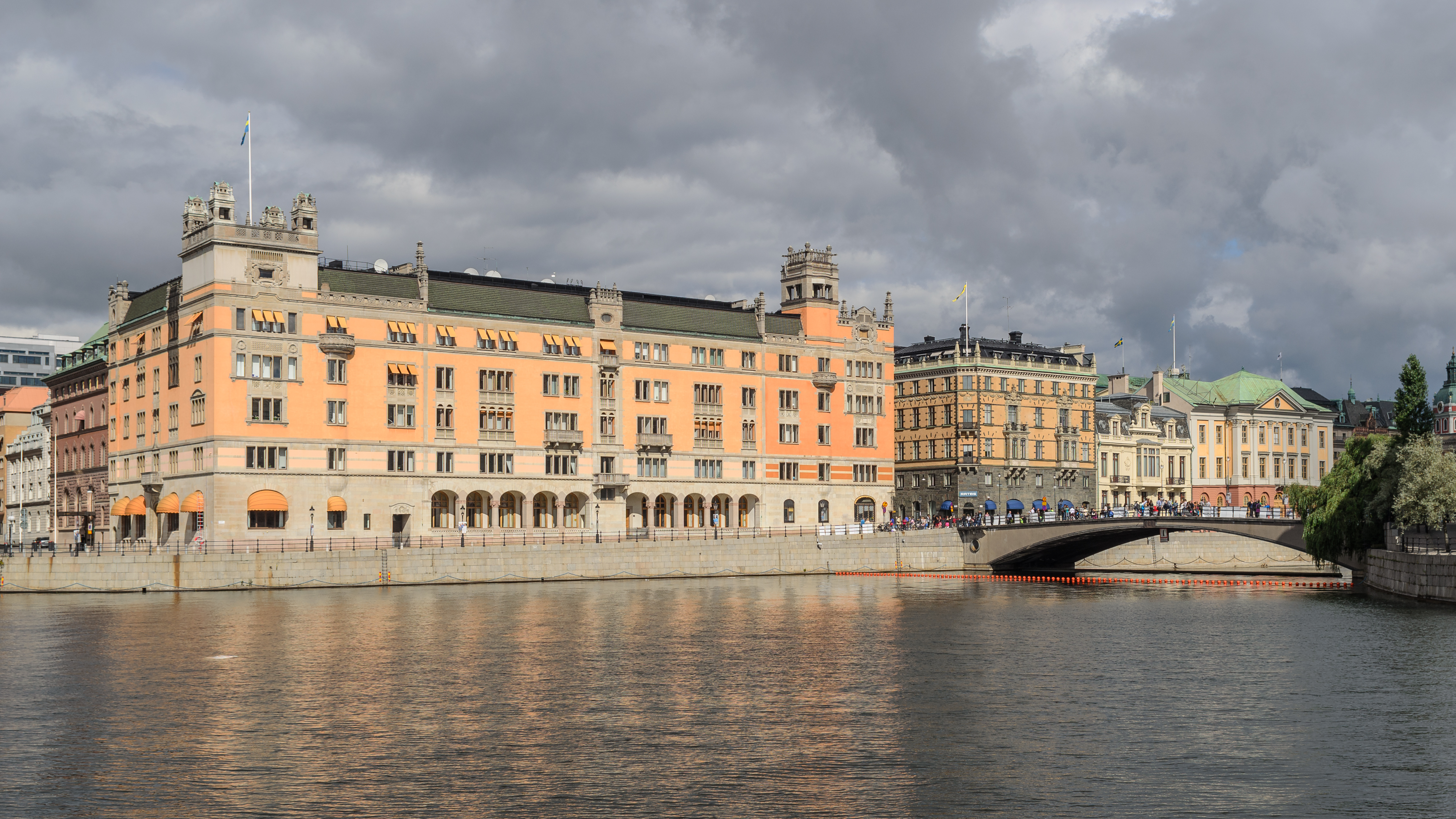 Rosenbad and the street Strömgatan in Stockholm.